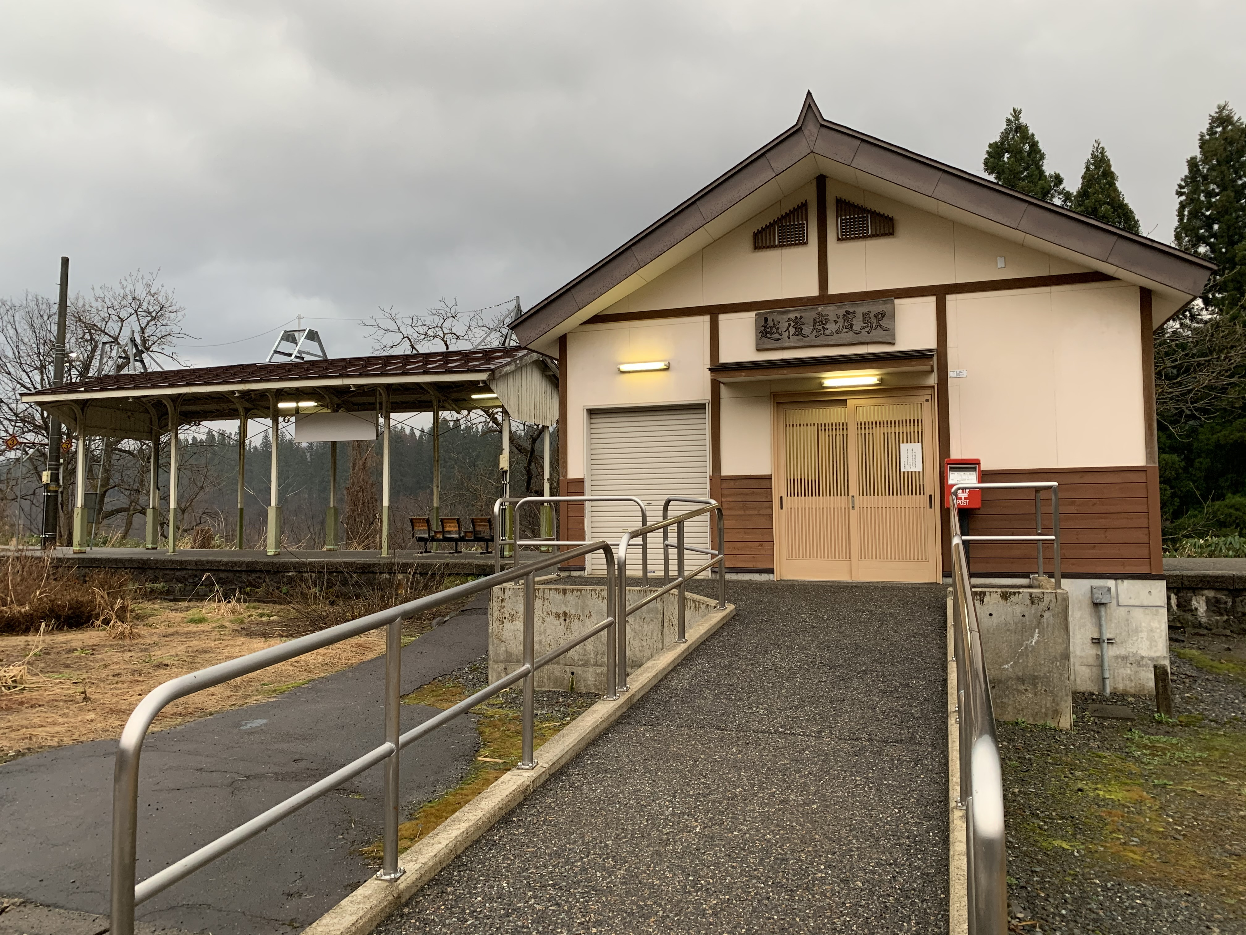 Echigo-Shikawatari Station, East Japan Railway Company